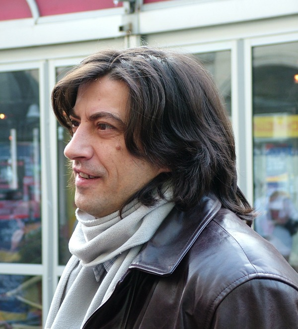 Image of Sasa Milenić